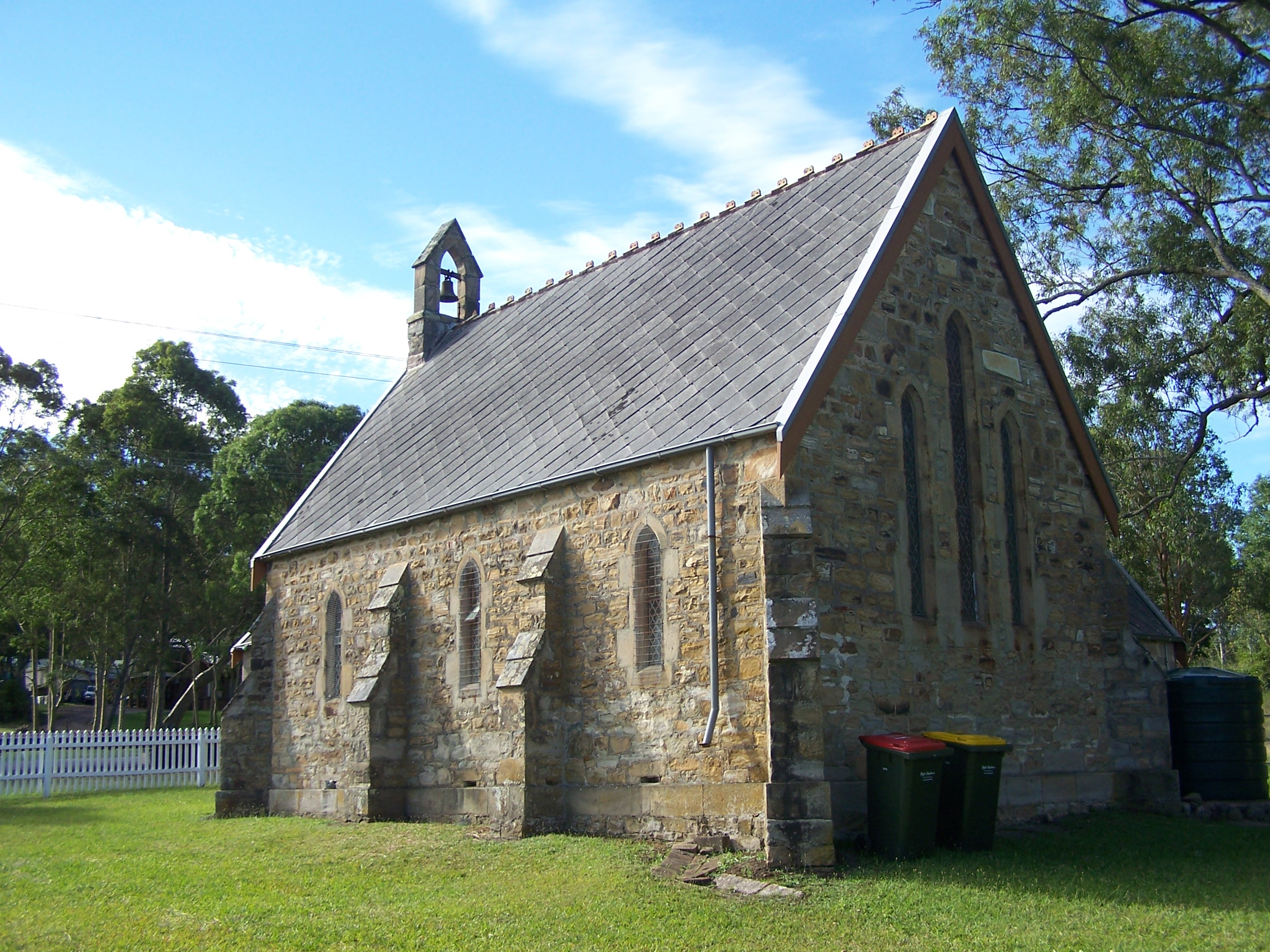 St Andrew's, Seaham. Established 1860.